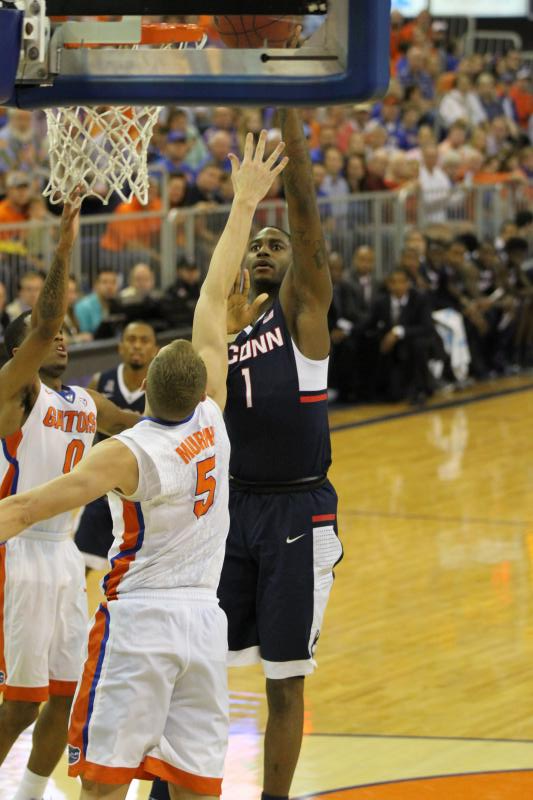 UCON vs Florida Gators 2015/01/03